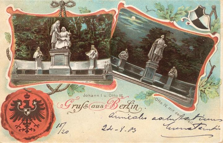 Former Siegesallee in Berlin with two monument groups. On the left the group with the double-statue commemorating to the together governing margraves of Brandenburg John I (1213–1266) and Otto III (ca. 1215–1267), sons of Albert II and grandchildren of Otto II. The bust on the left commemorates to the provost Simeon of Cölln, on the right Marsilius de Berlin, the first supported „Schultheiß“ (german for former village mayors) by documents of Berlin. Sculptor: Max Baumbach, inaugurated 22 March 1900. On the right the group commemorating to margrave Otto IV (surname with the arrow, ca. 1238–1308). The bust on the left commemorates to the knight Johann von Kröcher (called Droiseke), on the right to Johann von Buch. Sculptor: Karl Begas, inaugurated 22 March 1899.